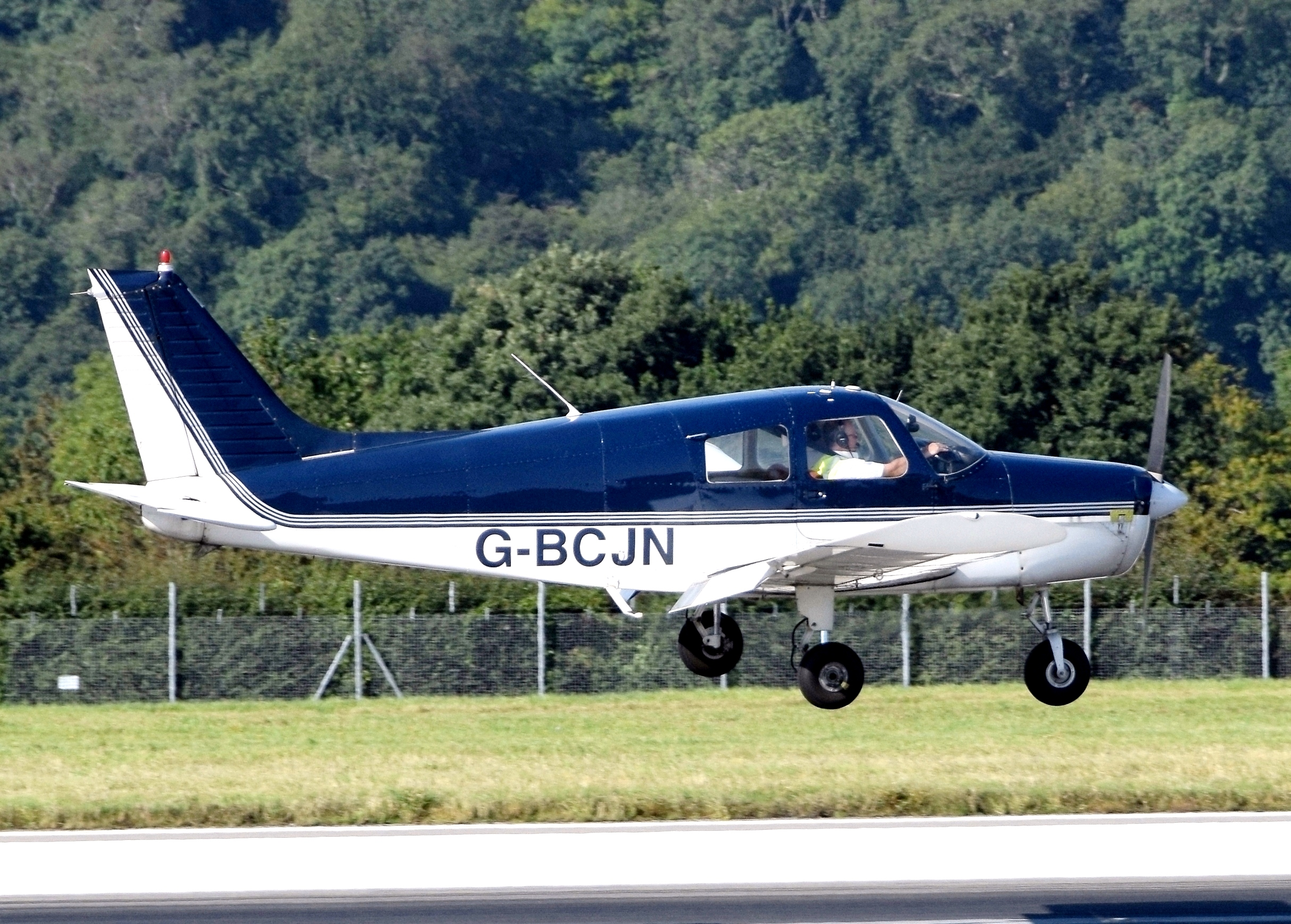 Piper PA-28-140 Cherokee Cruiser (G-BCJN) lands at Bristol Airport, England. Built 1974.